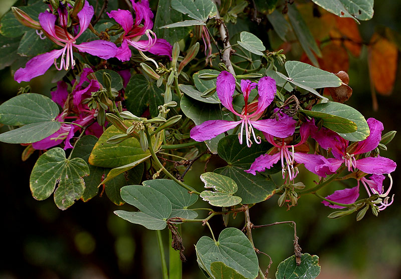 Kaniar, Butterfly tree, Germanium tree, Orchid tree, Sona or Karali Bauhinia purpurea in Hyderabad, India.